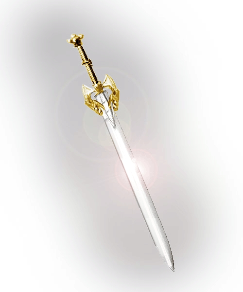 Excalibur In Welsh legend, King Arthur's sword is known as Caledfwlch... "Arthur's sword in his hand, with a design of two serpents on the golden hilt; when the sword was unsheathed what was seen from the mouths of the two serpents was like two flames of fire, so dreadful that it was not easy for anyone to look."